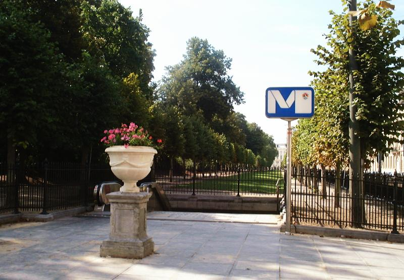 Entrance of Park / Parc station, Brussels metro